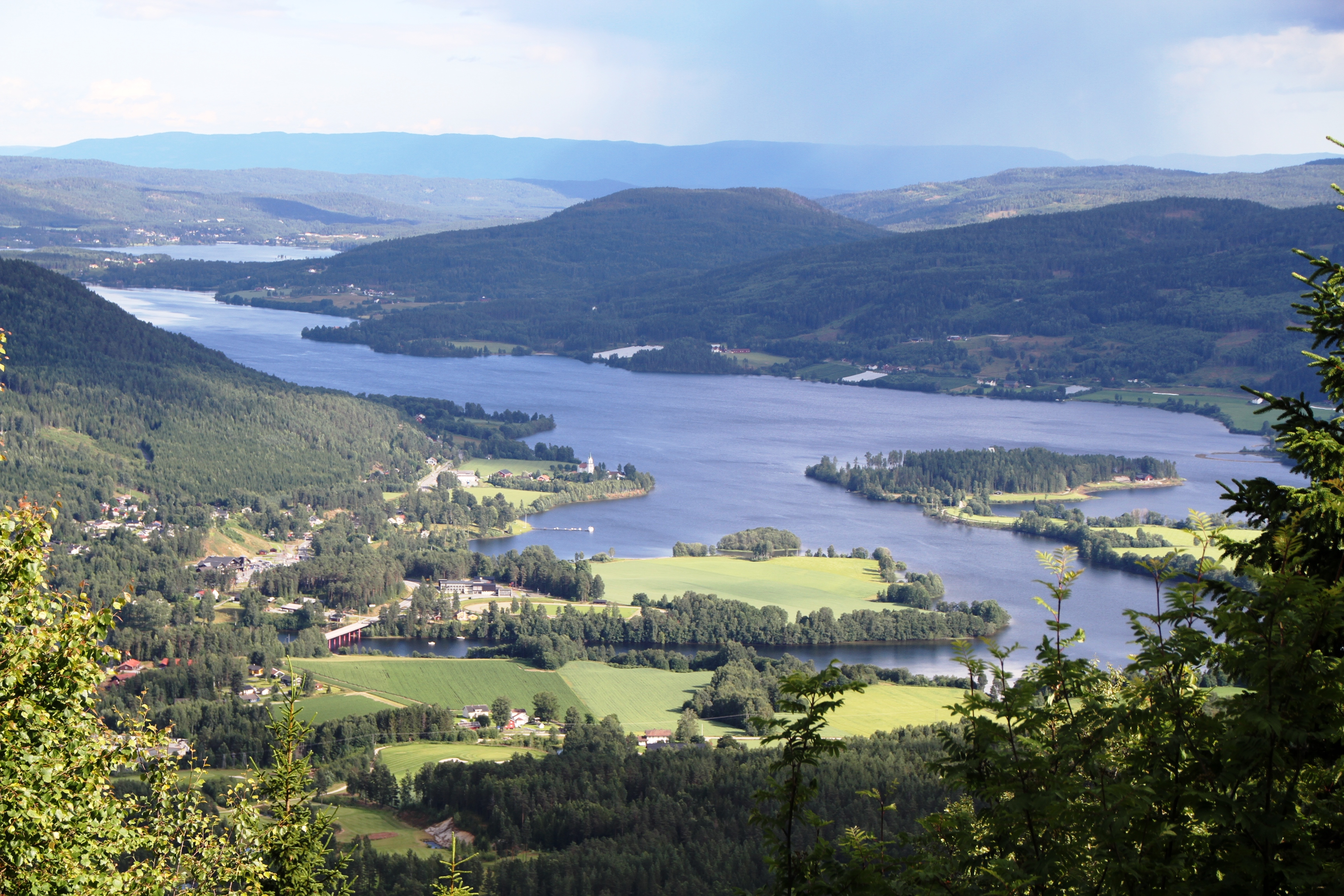 Photo seen from the Norefjell plateau, towards the lake Krøderen. Municipality of Krødsherad, Buskerud county, Norway.